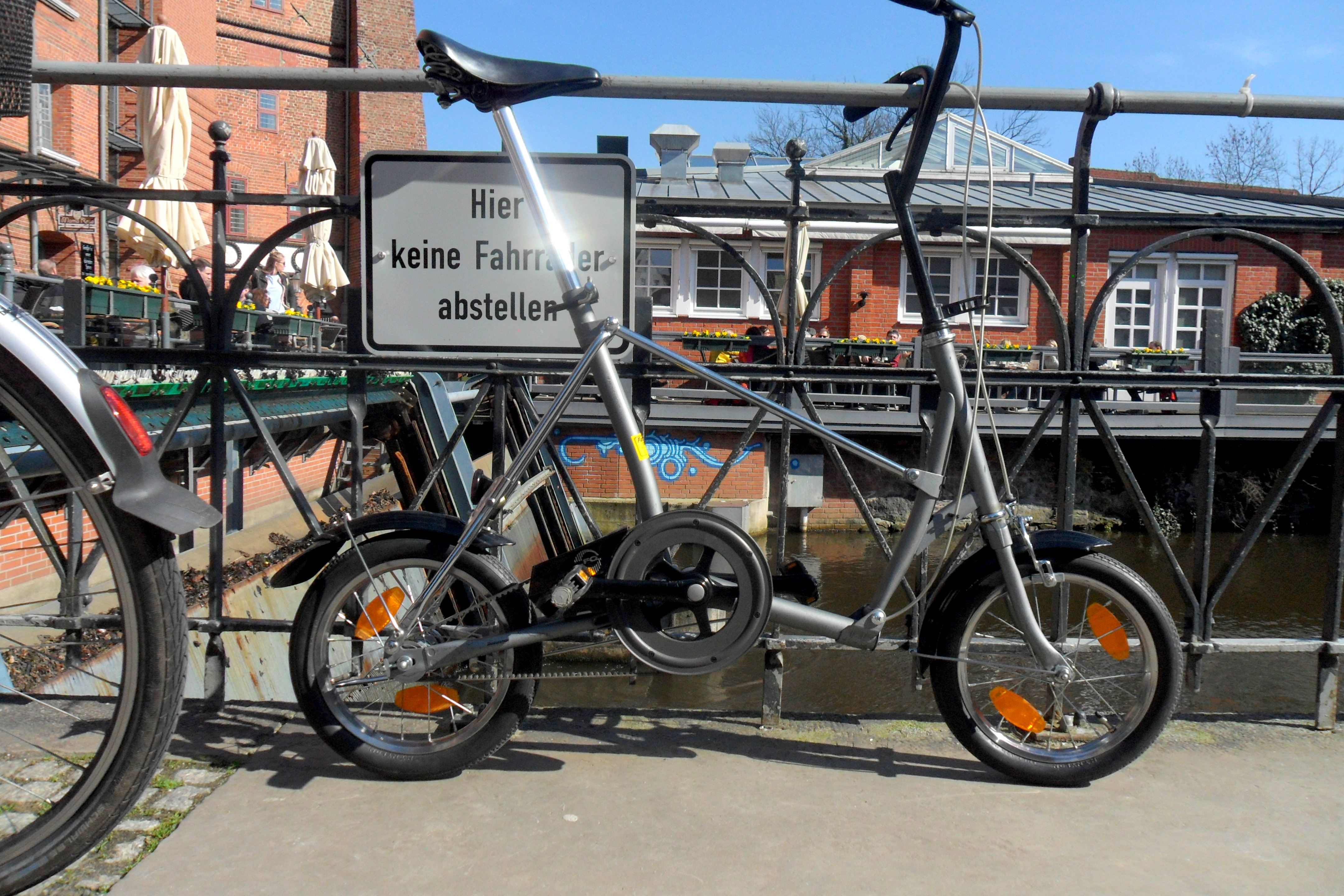 Bridgestone Picnica folding bicycle. Photographed in Germany in spring 2016.